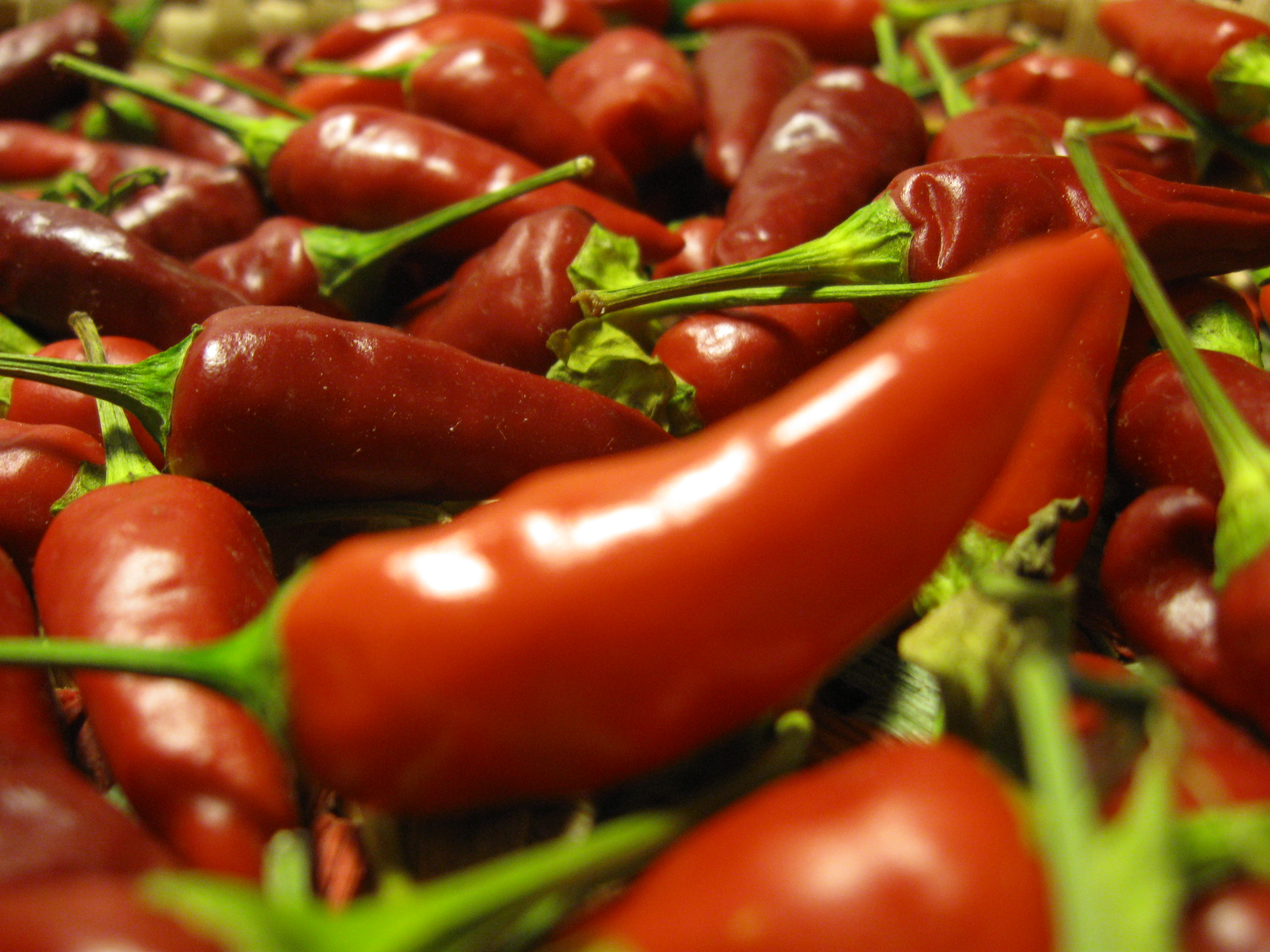 Peppers